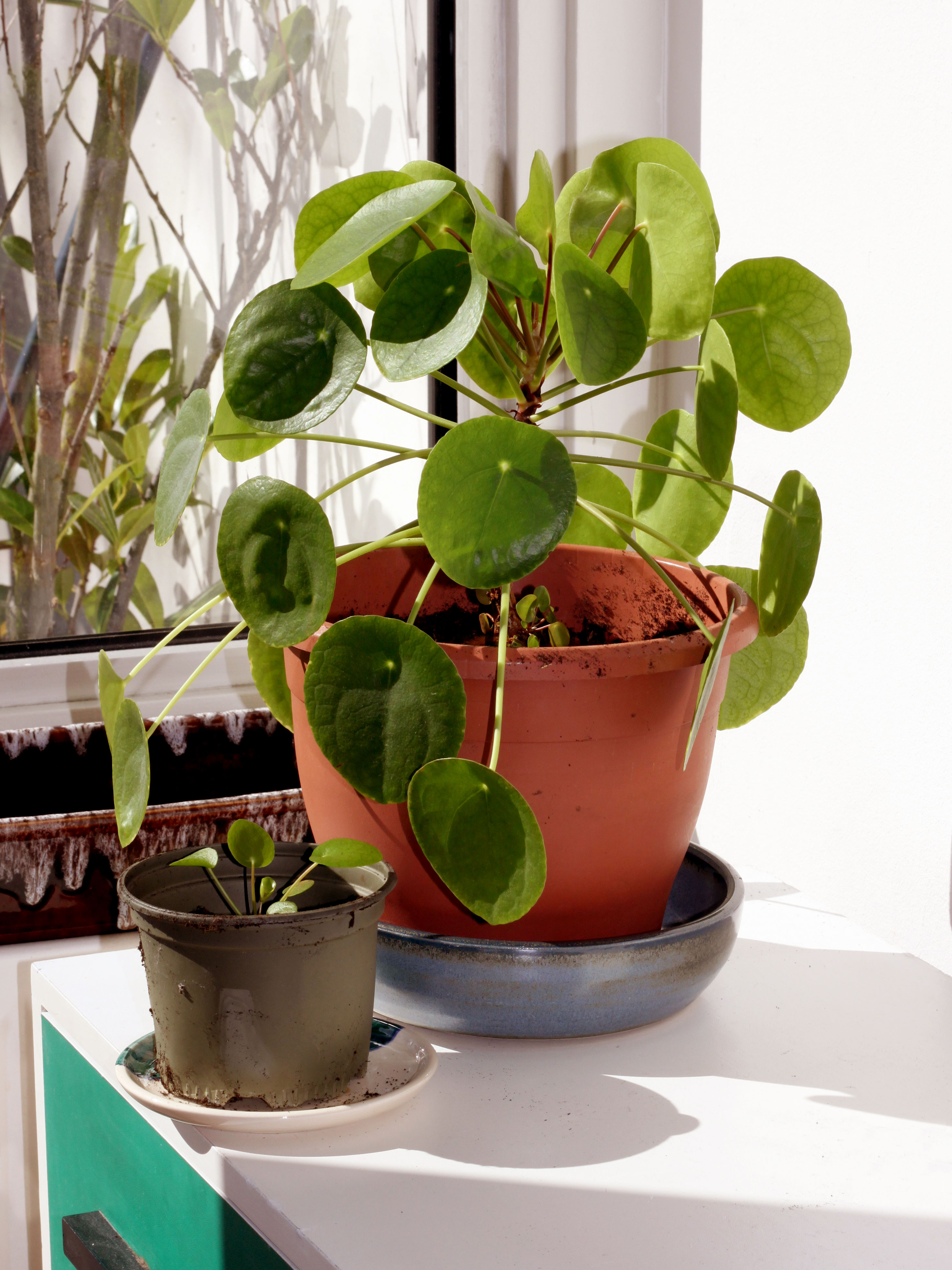 Pilea peperomioides (Chinese money plant) in both fully grown and infant state.